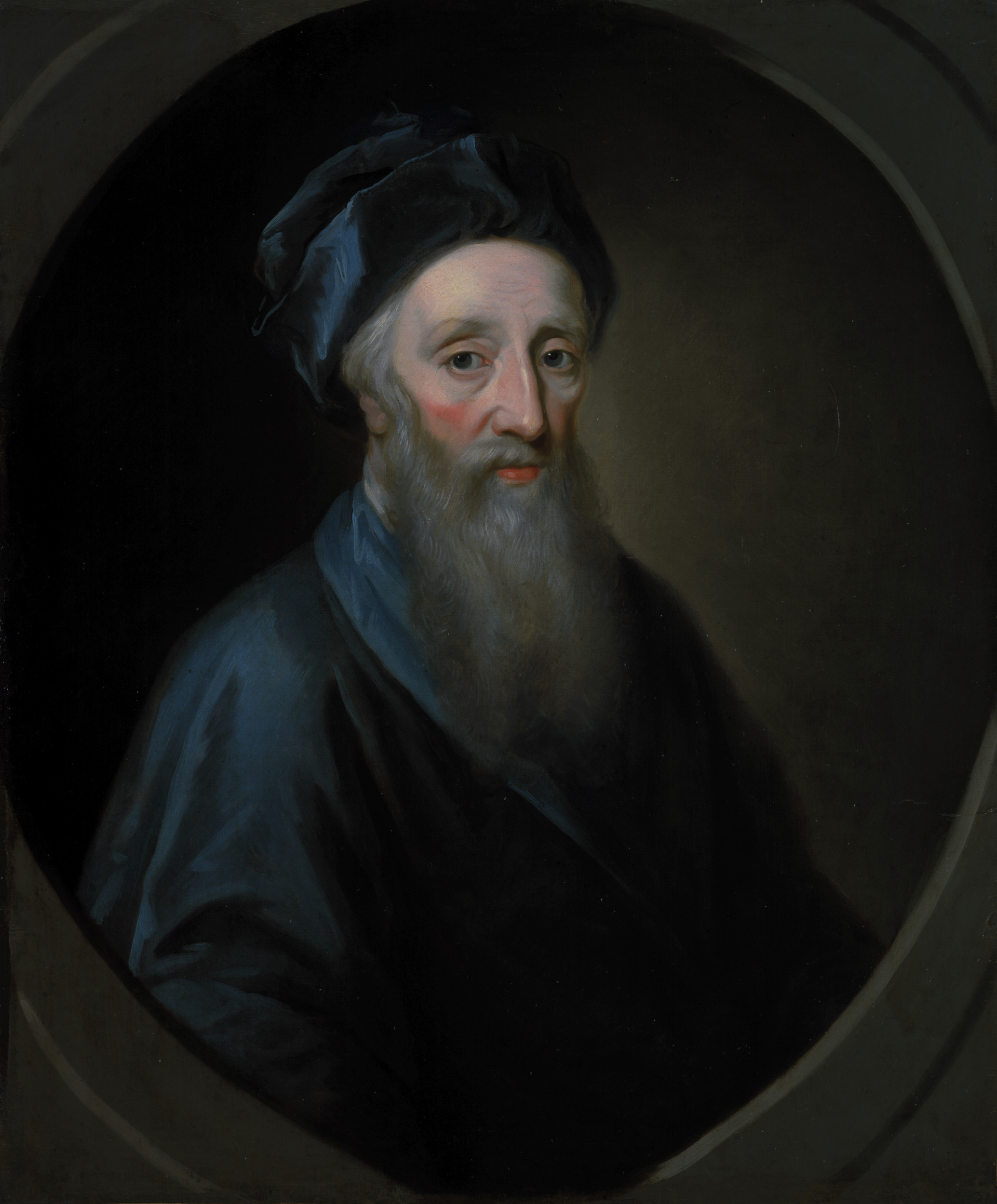 Sir Patrick Hume, 1st Earl of Marchmont